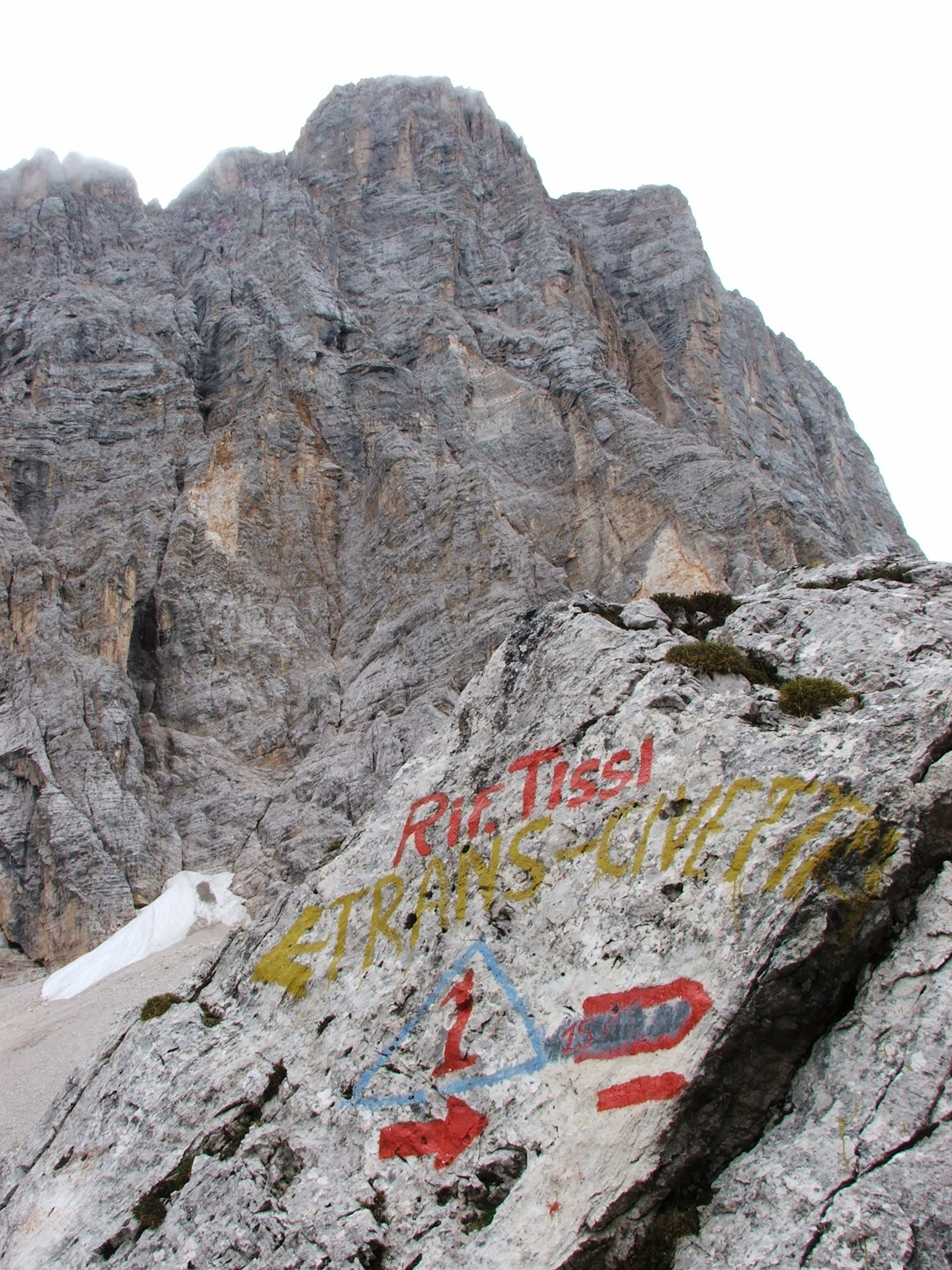 Sign of the High Route of the Dolomites 1